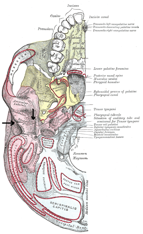 Base of the skull. Arrows indicate petrotympanic fissure.